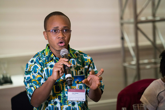 Picture of Ghanaian Journalist, Isaac Kaledzi